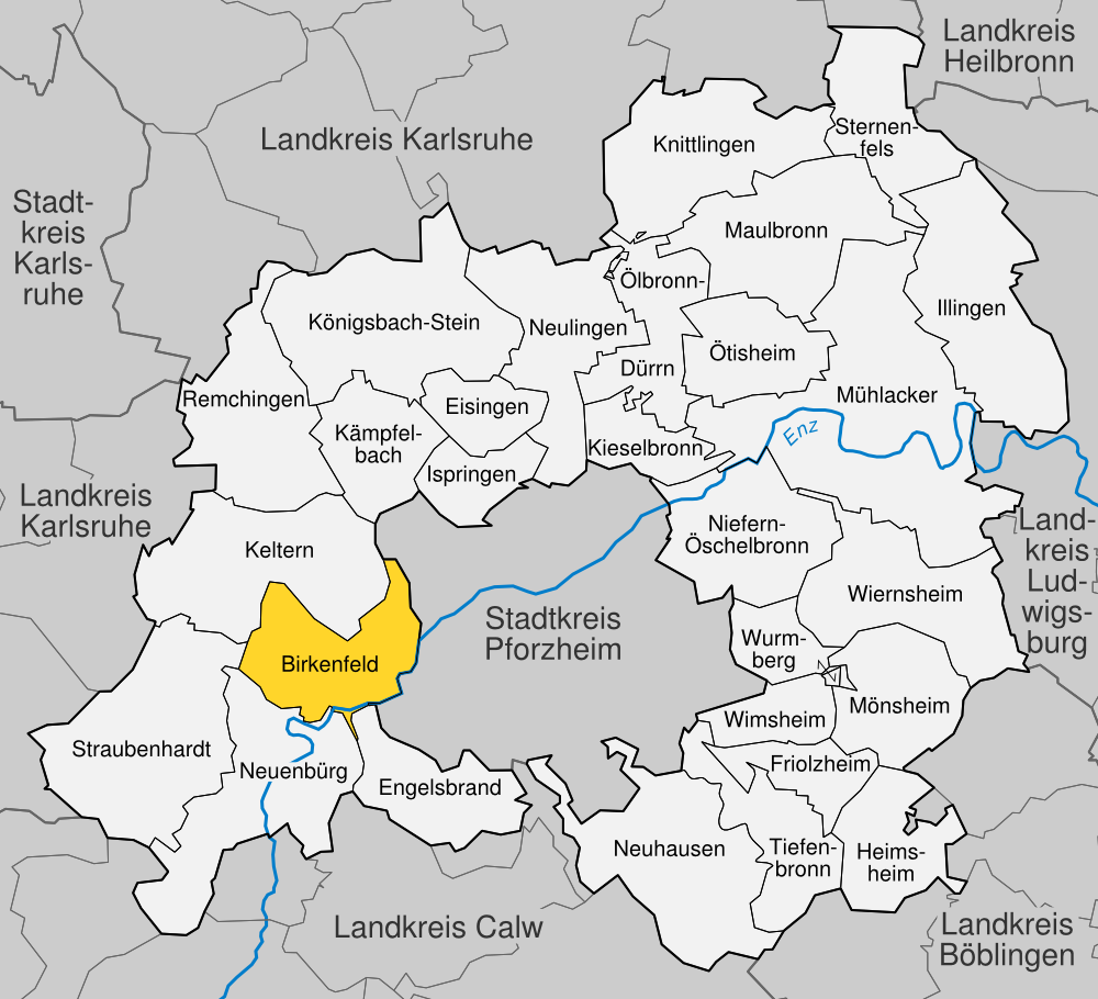 position of Birkenfeld within distict of Enzkreis, Baden-Württemberg, Germany